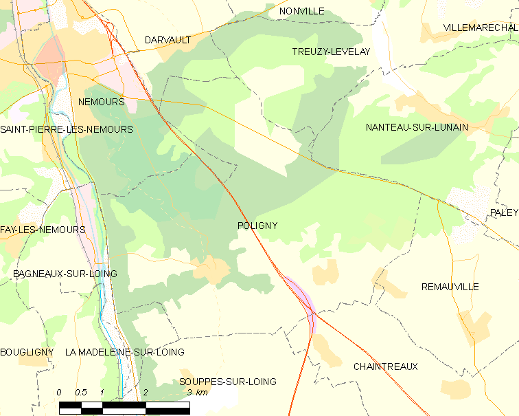 Map of French municipality Poligny